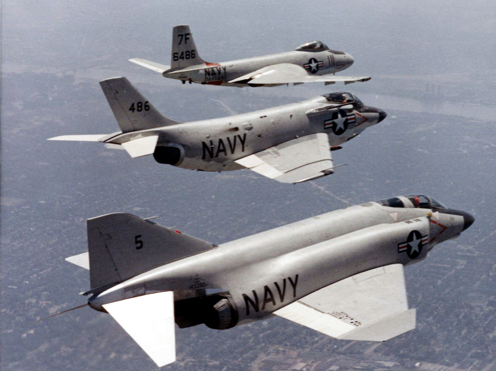 Three types of McDonnell fighters in flight from Naval Air Station Oakland (USA), circa 1959: a F2H-3 Banshee (BuNo 126436) of NARTU Oakland, an F3H-2 Demon (BuNo 145233), and a pre-production F4H-1F Phantom II (BuNo 143390).The F4H-1F 143390 later caught fire on takeoff from NAS China Lake on 13 August 1961. The pilot ejected safely.